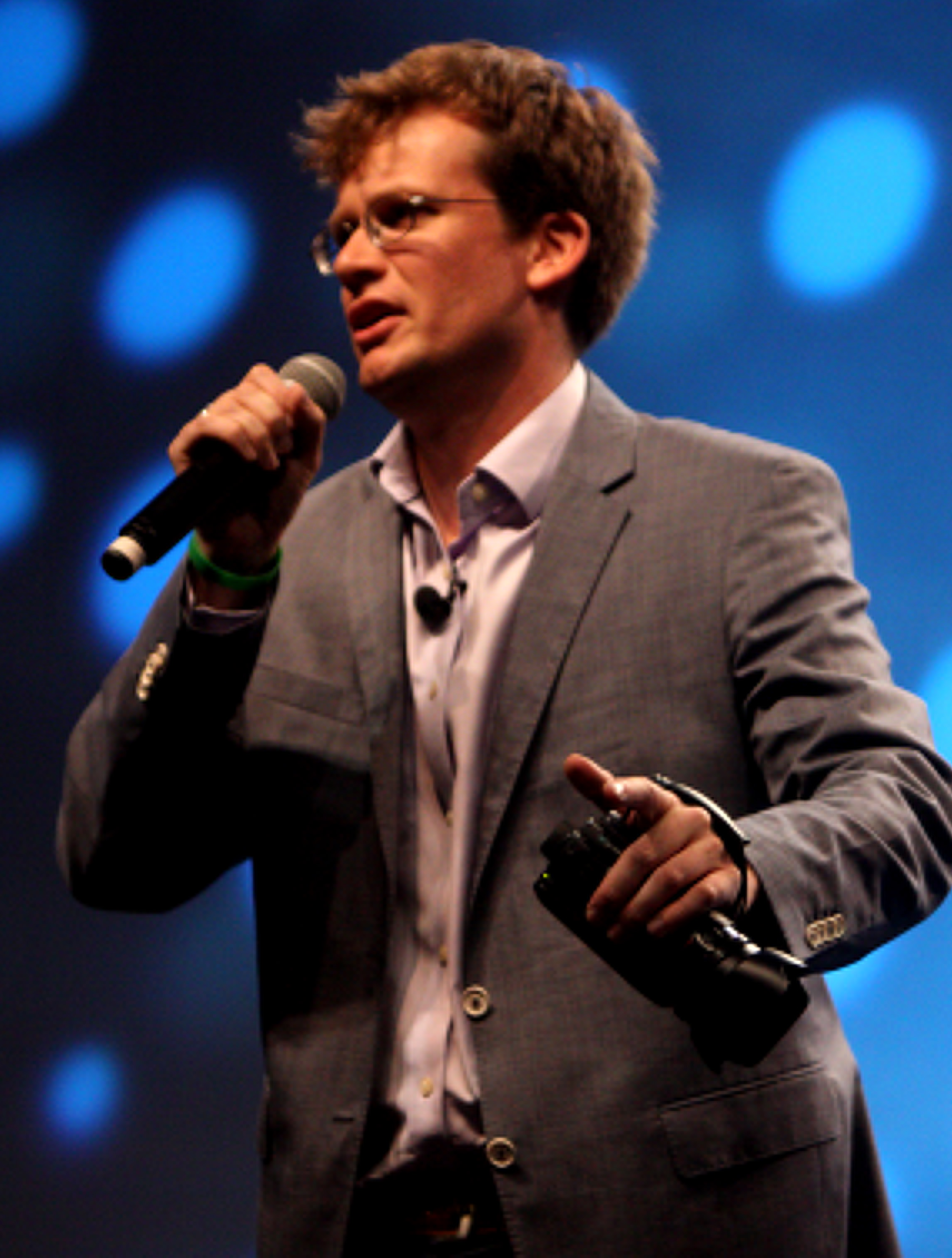 John Green speaking at VidCon in 2012